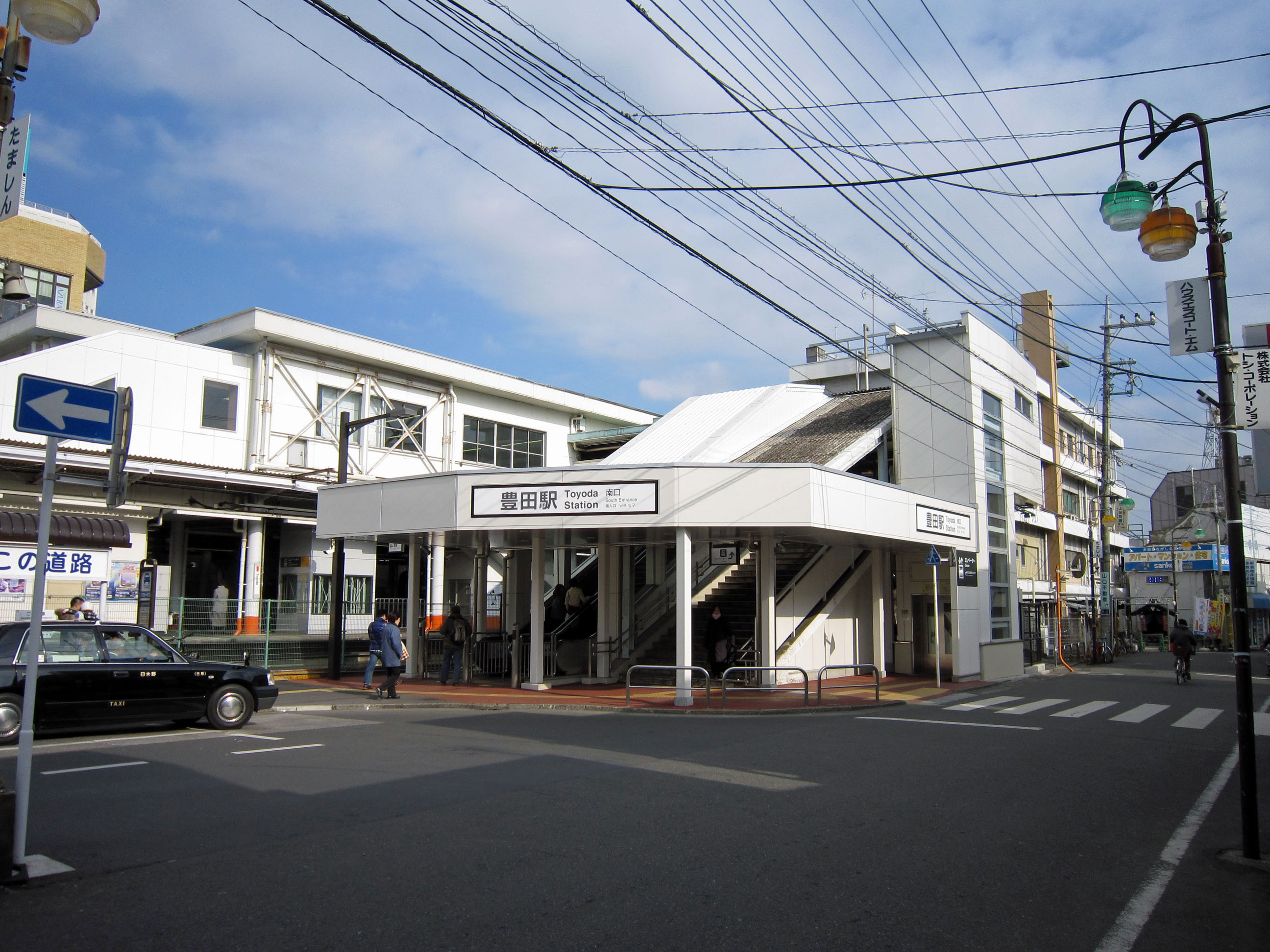 Toyoda Station South Exit, Hino, Tokyo, Japan